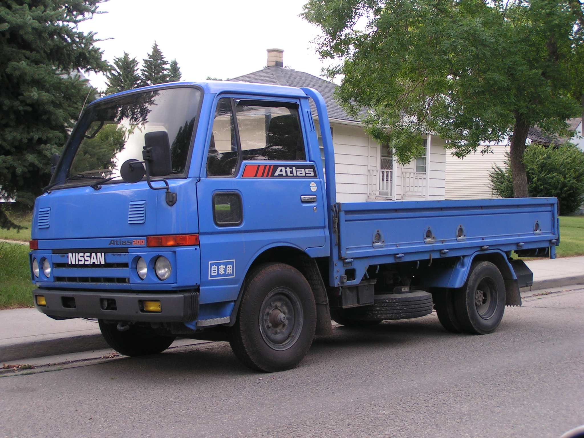 Nissan Atlas 200. A Japanese import - most people import sports cars or SUVs but once and a while commercial truck comes through as well.